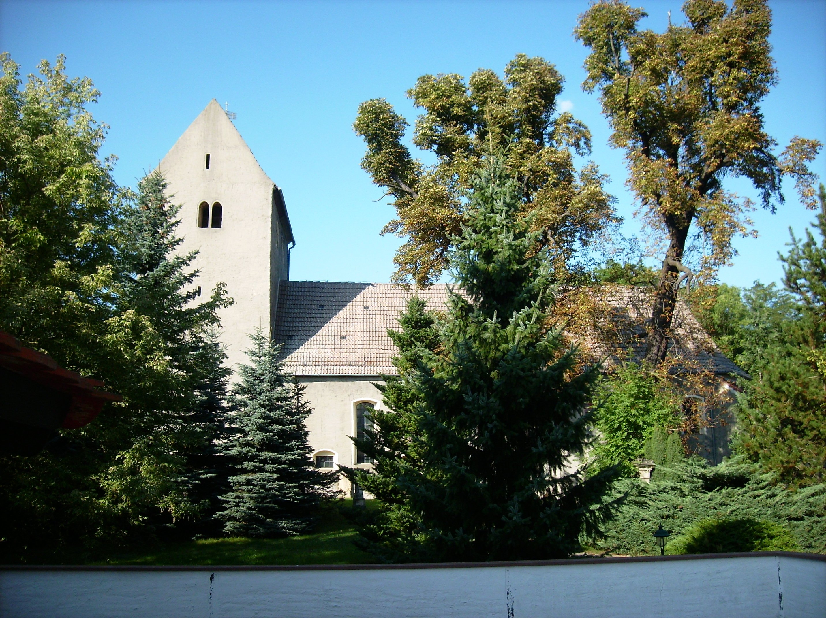 Süptitz church (Dreiheide, Nordsachsen district, Saxony)